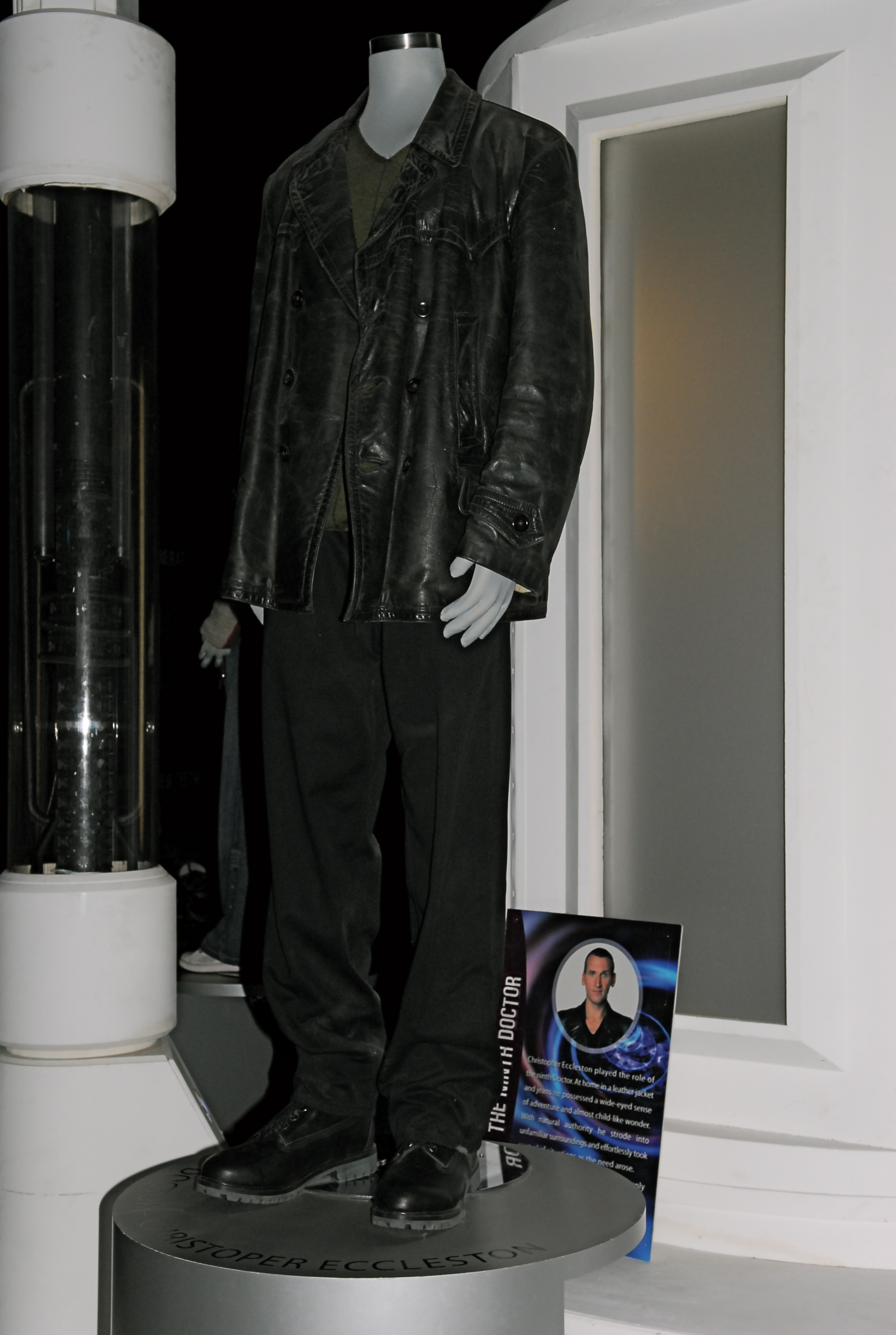 costume of the ninth Doctor Doctor Who Experience